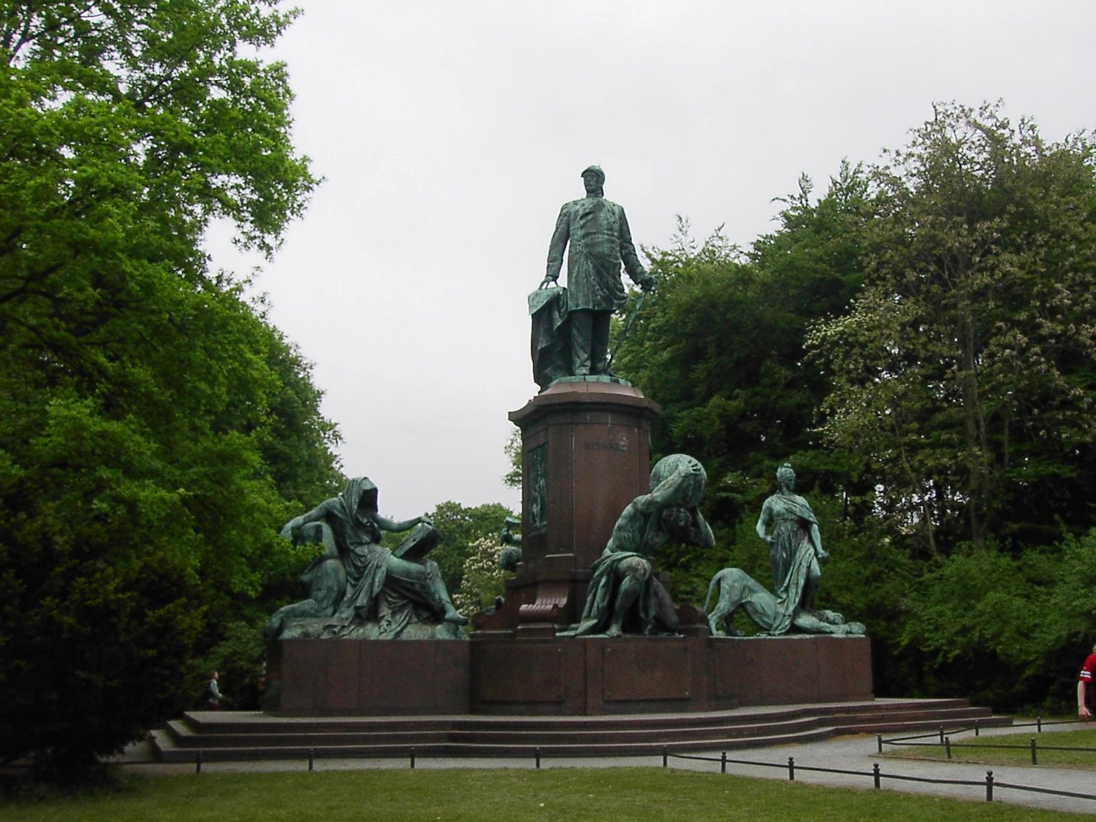 Memorial to Otto von Bismarck, Tiergarten, Berlin